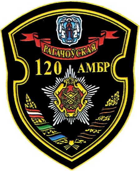 Insignia of the 120th Mechanized Brigade Belarus